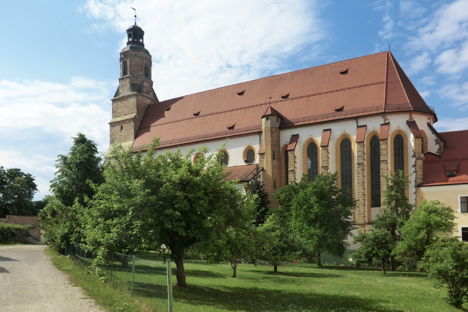 Church of St. George, Amberg Native nameSt. Georgkirche, AmbergLocationAmberg, GermanyCoordinates49° 26′ 38.12″ N, 11° 51′ 00.36″ E